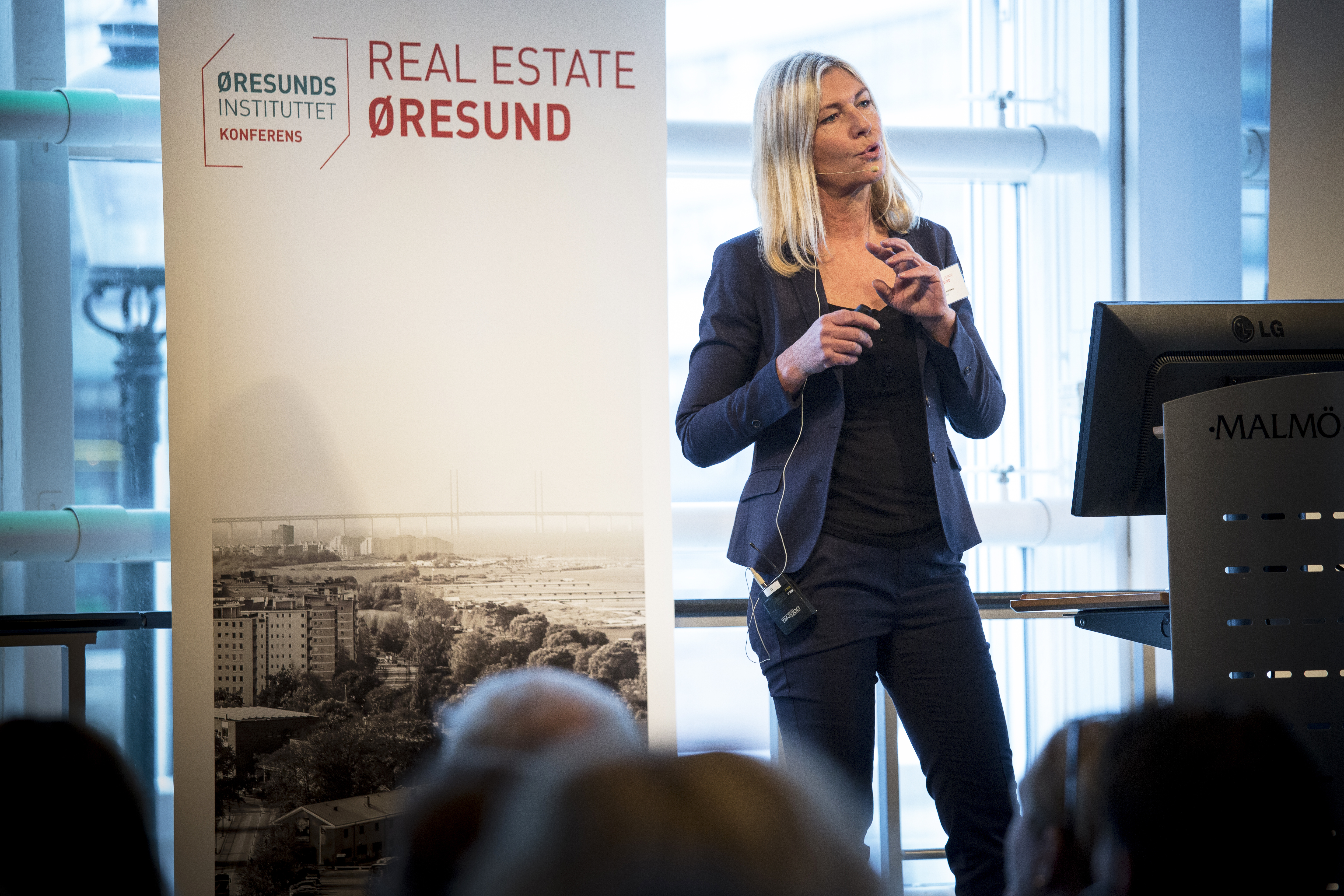 Danish architect Dorte Mandrup in 2015